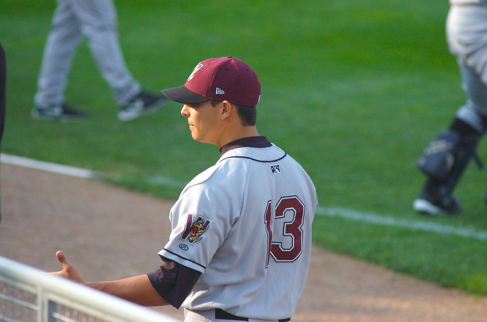 Ricky Orta in 2007.